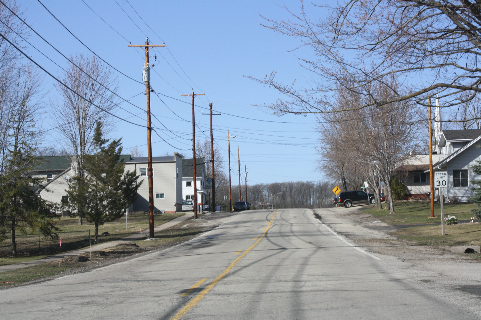 Looking north in Stevensville Chute, Wisconsin along Wisconsin Highway 76.